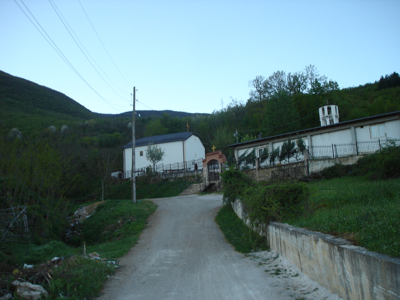 Church of St. Nicolas in the village of Balin Dol near Gostivar, Macedonia